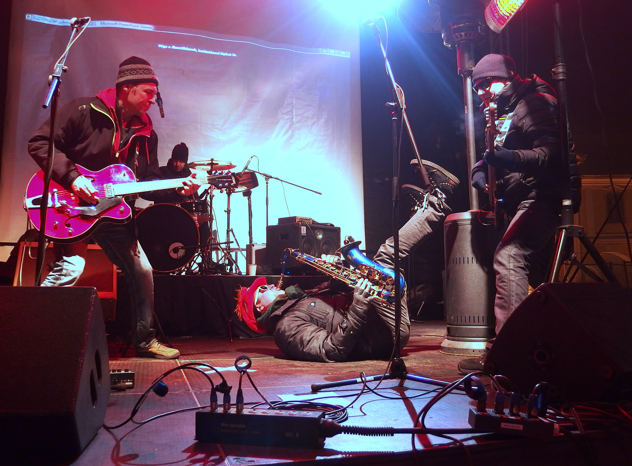 Pedrofon, Hungarian rock and roll show band